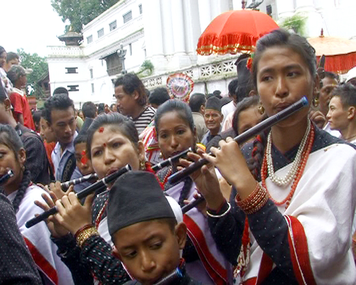 Newari Girls playing Flute in Gaijatra festival.